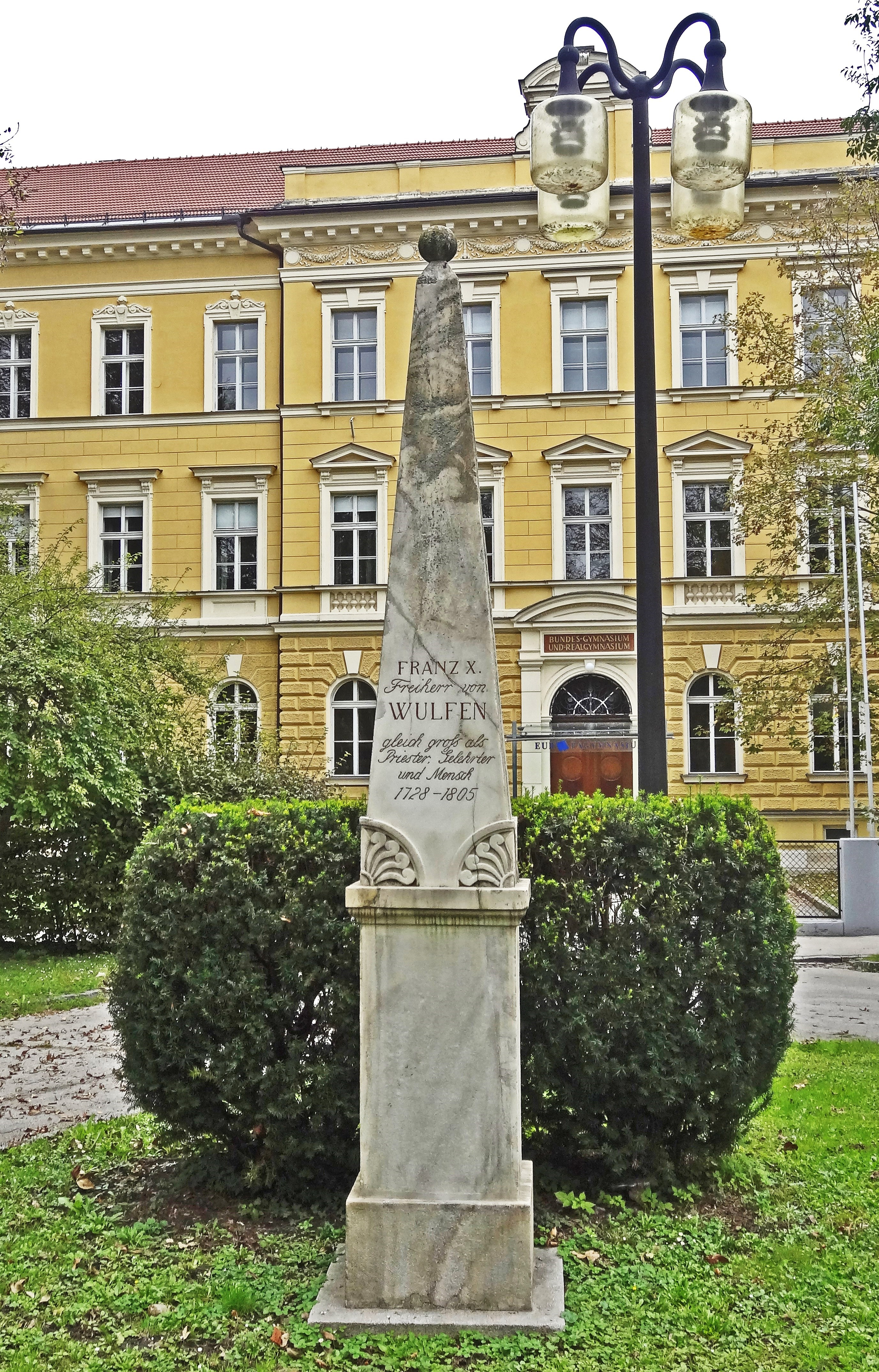 Klagenfurt, obelisk commemorating Franz Xaver Wulfen front of the former Jesuit College